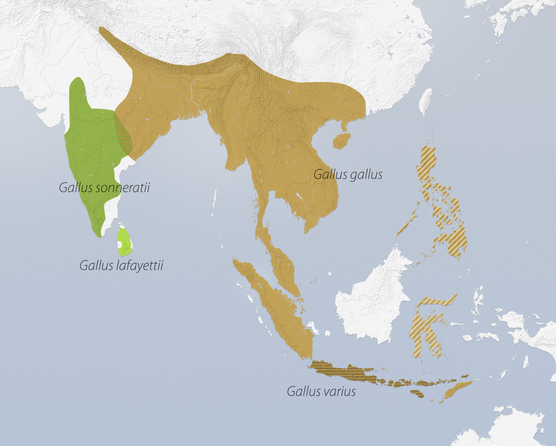 Distribution of the four junglefowl species (Gallus): Grey Junglefowl (G. sonneratii) – green Sri Lanka Junglefowl (G. lafayettii) – light green Red Junglefowl (G. gallus) – light brown (sympatric distribution with G. sonneratii striped horizontally, feral populations striped diagonally) Green Junglefowl (Gallus varius) – darker brown (overall sympatric distribution with G. gallus)